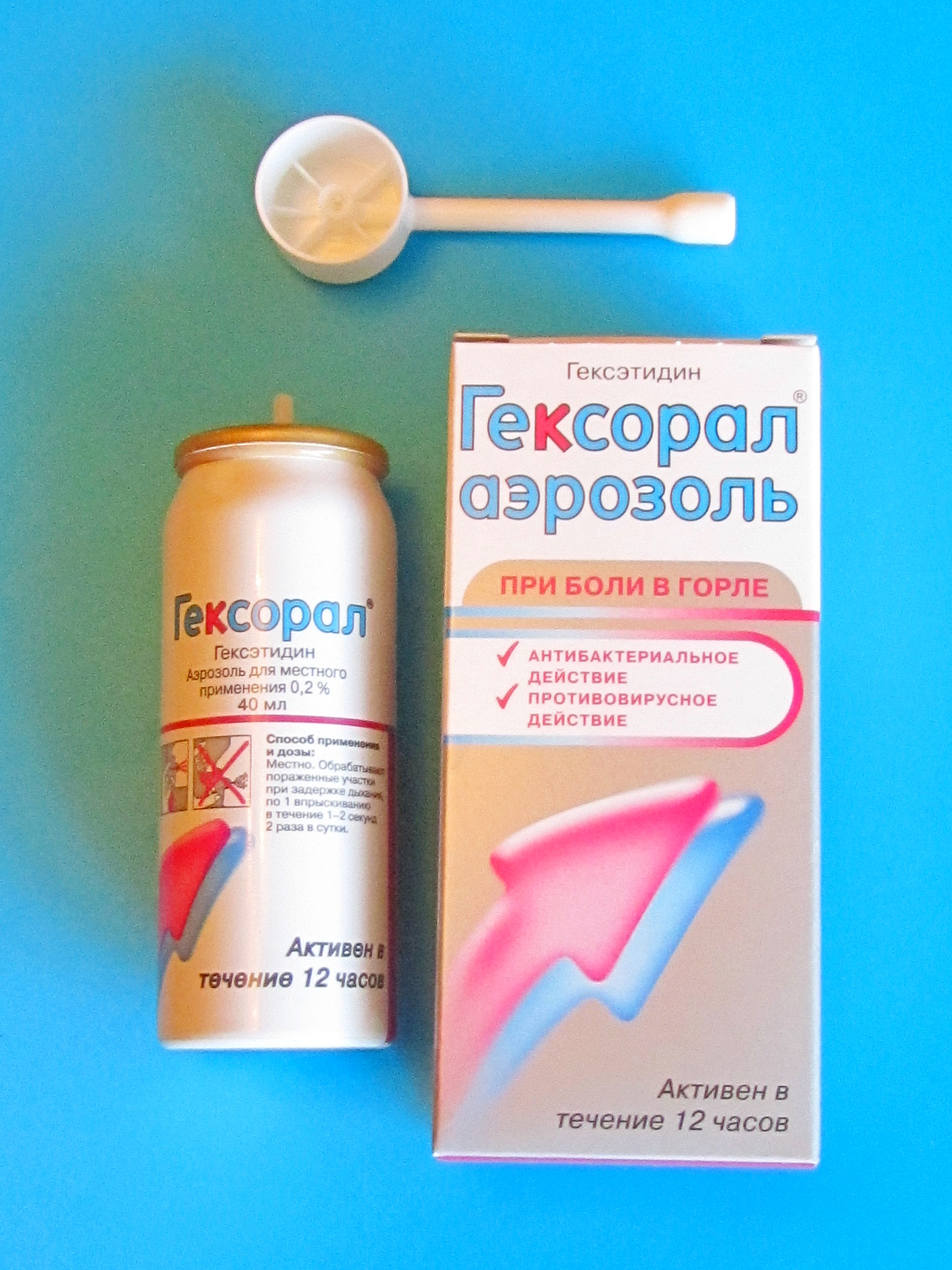 Hexetidine (Latin: Hexetidinum) is an anti-bacterial and anti-fungal agent commonly used in both veterinary and human medicine. It is a local anesthetic, astringent and deodorant and has antiplaque effects.